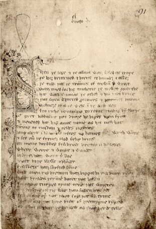 Original text of Sir Gawain Manuscript.